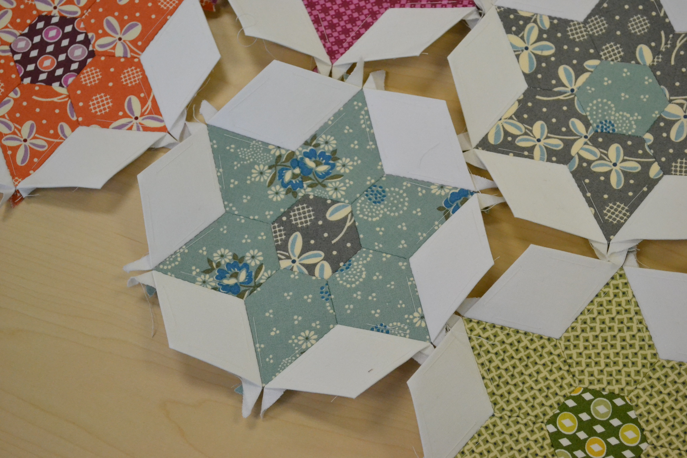 Someday I hopefully will have a finished quilt!